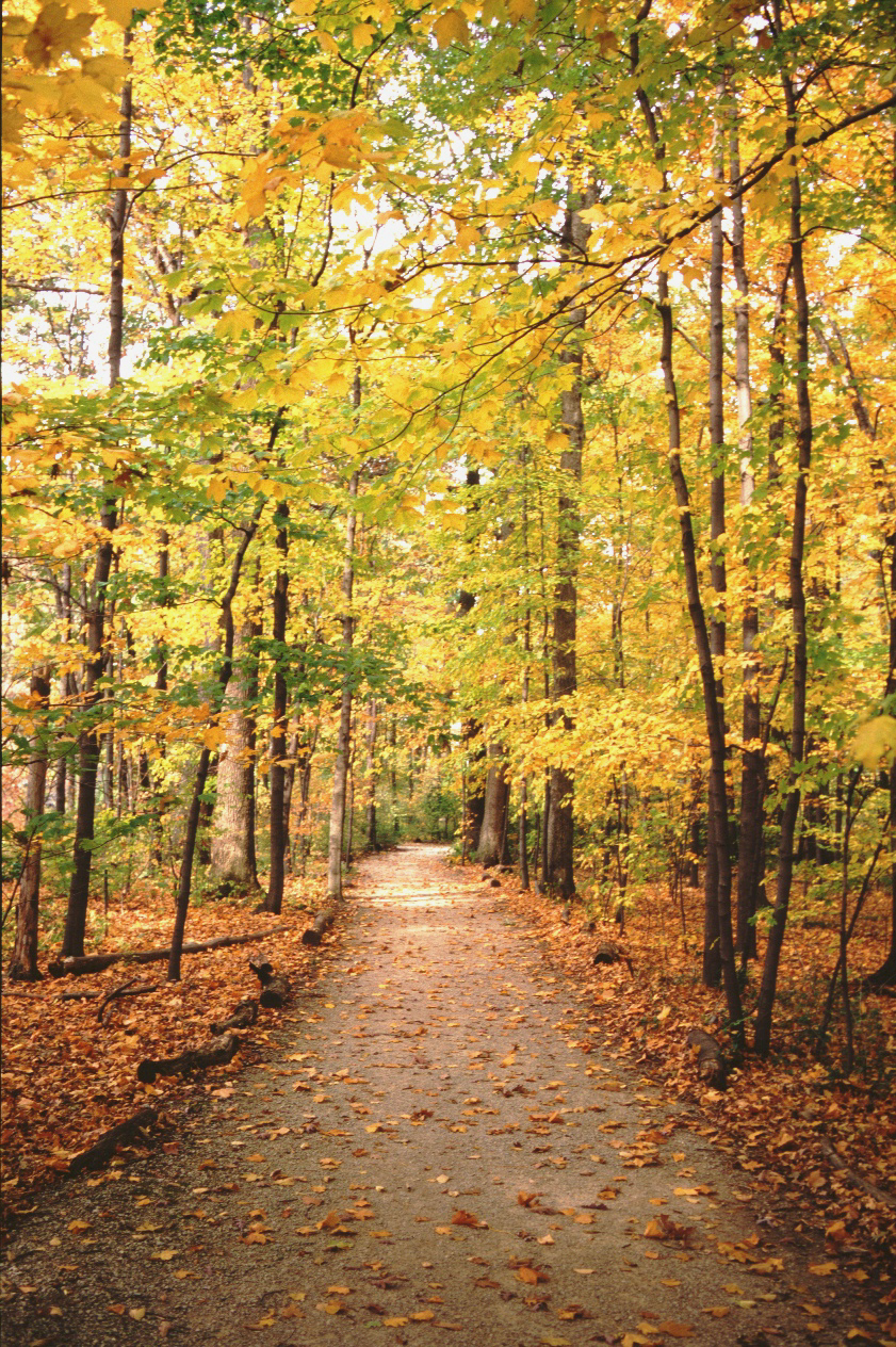 Christy Woods, near Ball State University, August 8, 1999.